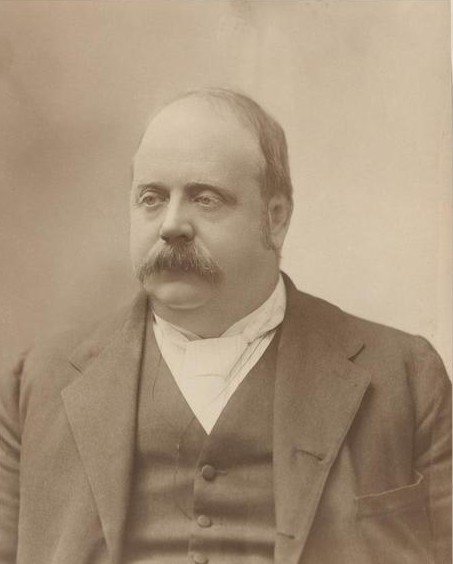 Portrait of Sir George Reid [picture]. [189-?] 1 photograph : sepia toned ; 38.1 x 30.4 cm.